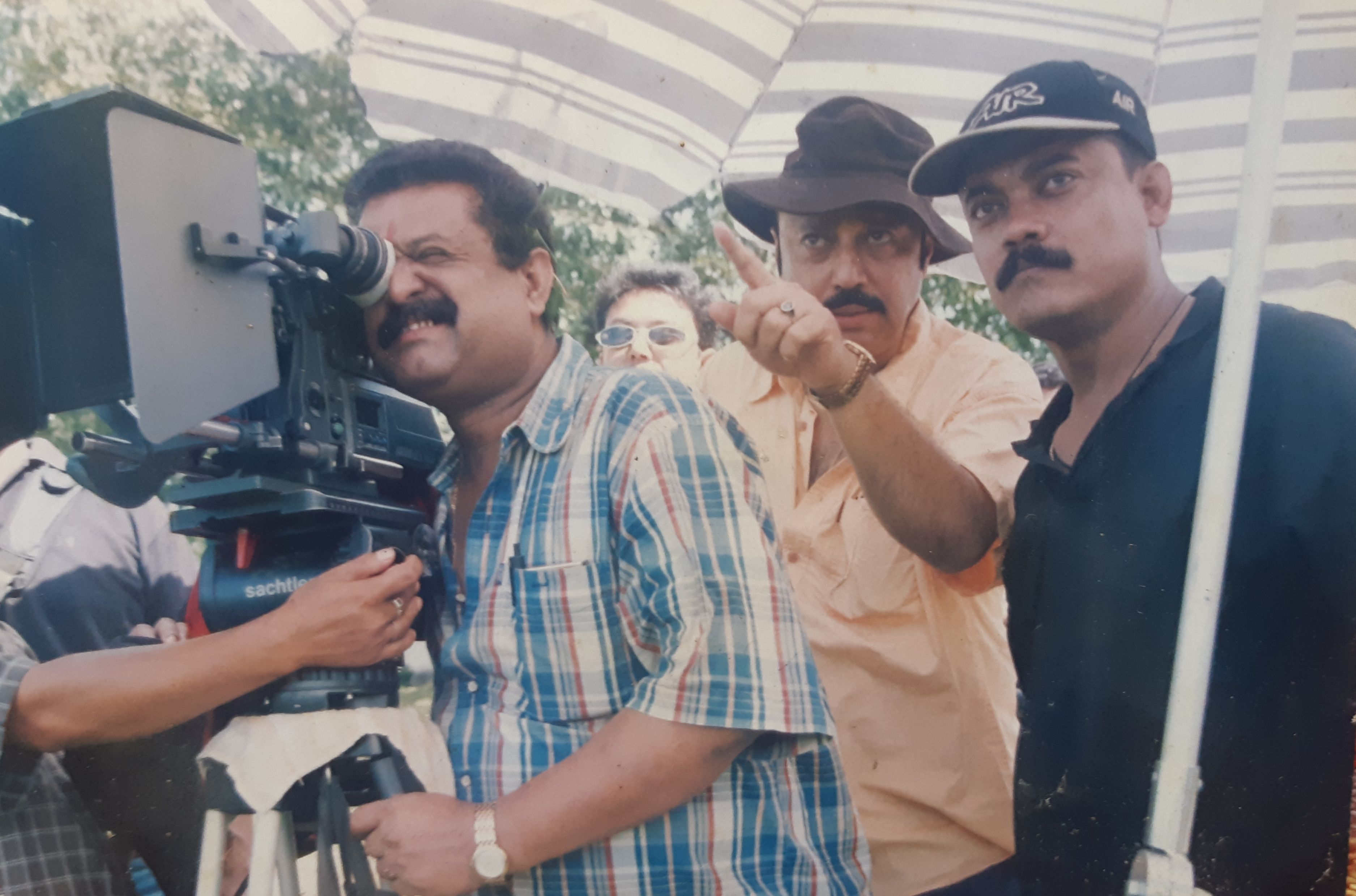 Chakradhar Deka with director Taufik Rahman on the sets of Bandhan (2001)